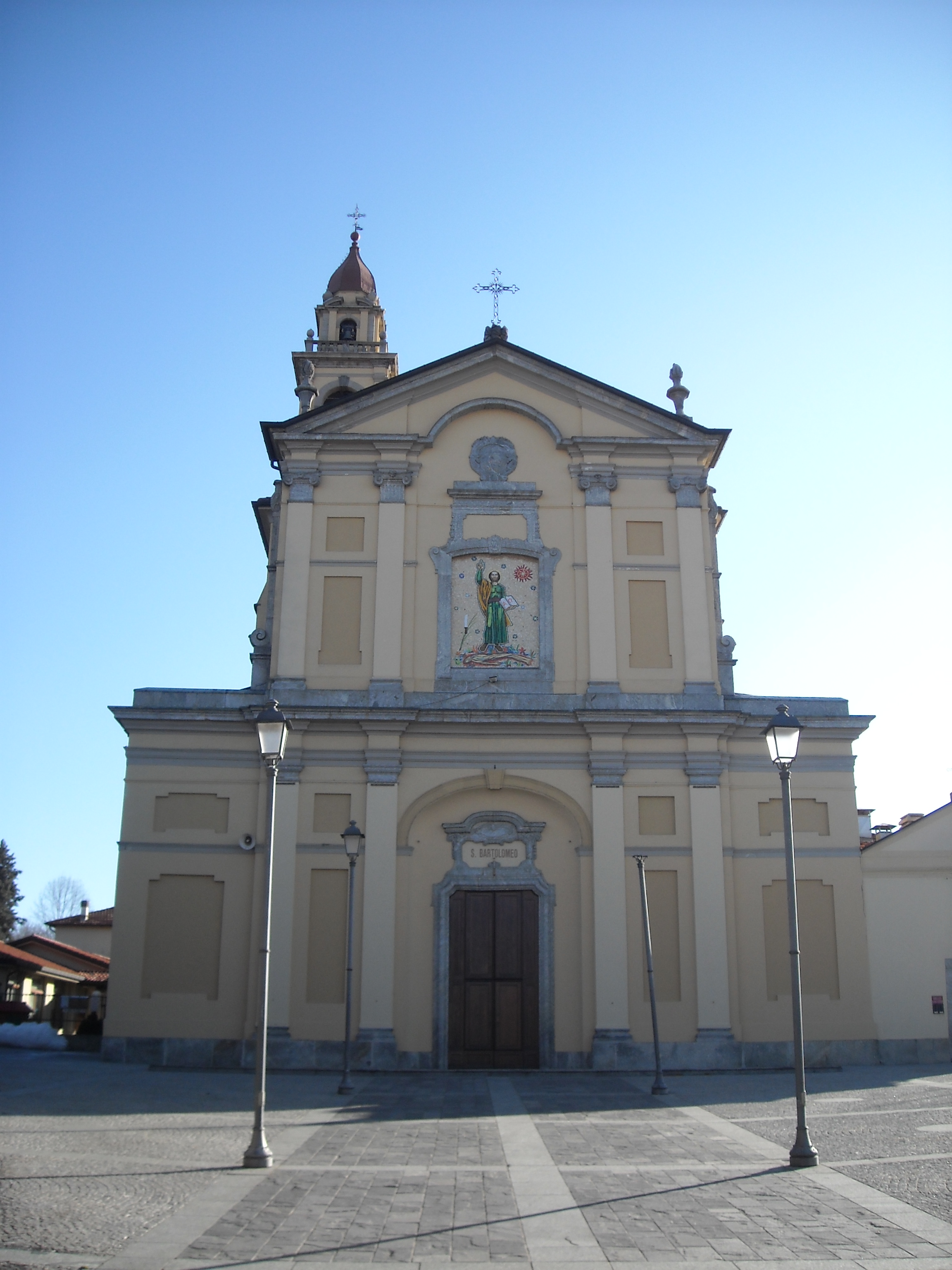 Parish church of St. Bartholomew, Barzago, Lecco, Italy